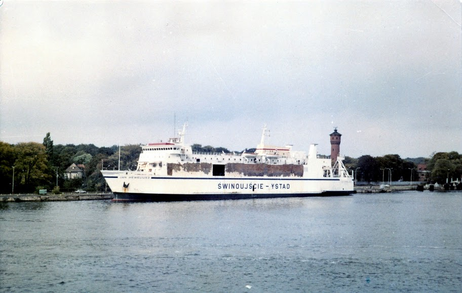 Polish ferry MS Jan Heweliusz in Świnoujście. Damage after recent fire visible. IMO number 7527904